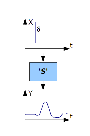 The Impulse Response (Y) from a system (S) when fed with a dirac pulse (X)